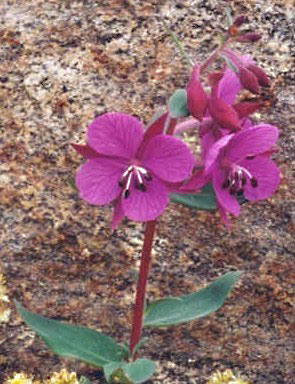 Epilobium latifolium (Dwarf Fireweed; syn. Chamerion latifolium)